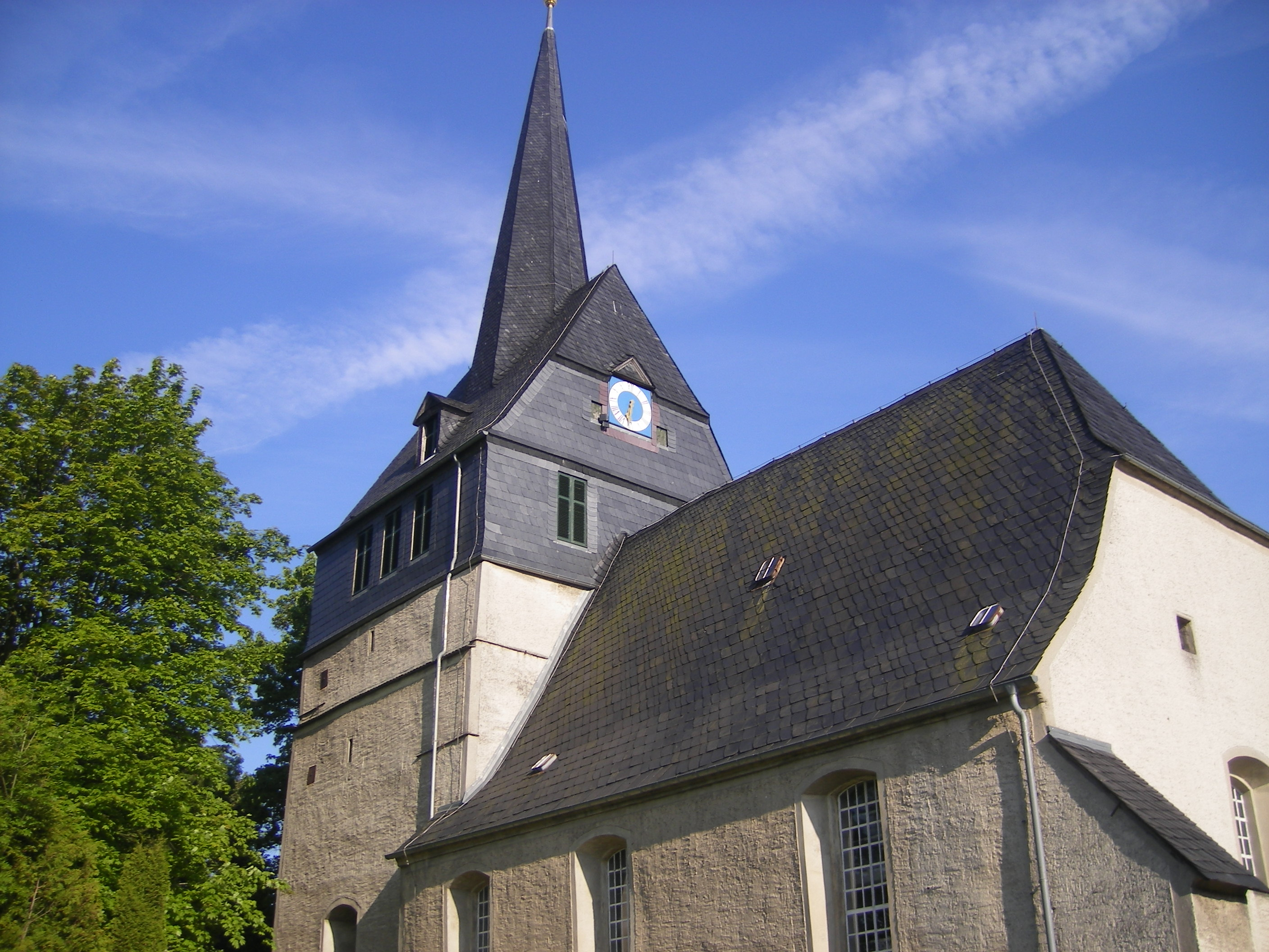 The church in Thonhausen near Schmölln/Thuringia/Germany